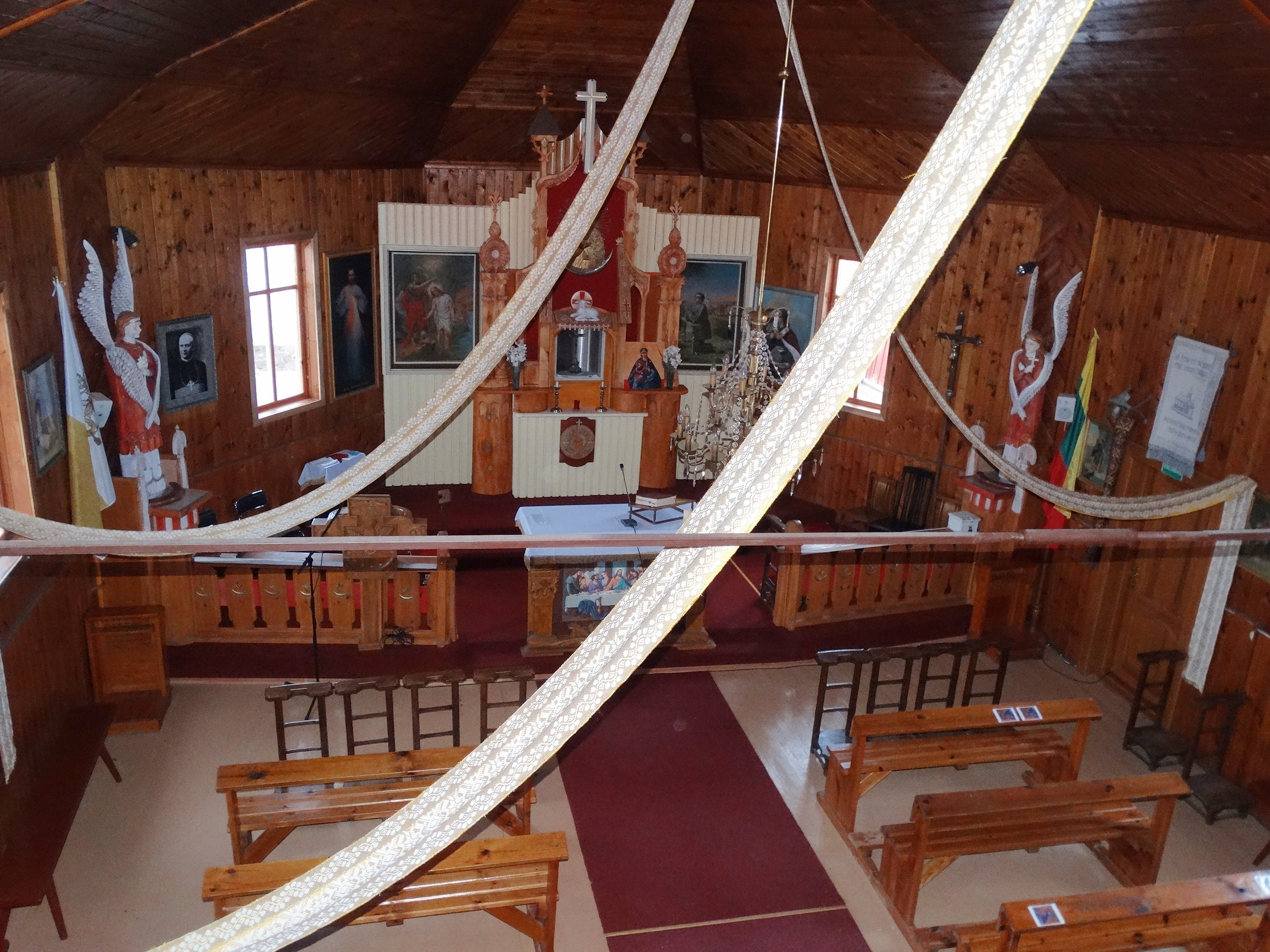 Catholic church, interior, Reškutėnai, Švenčionys district, Lithuania